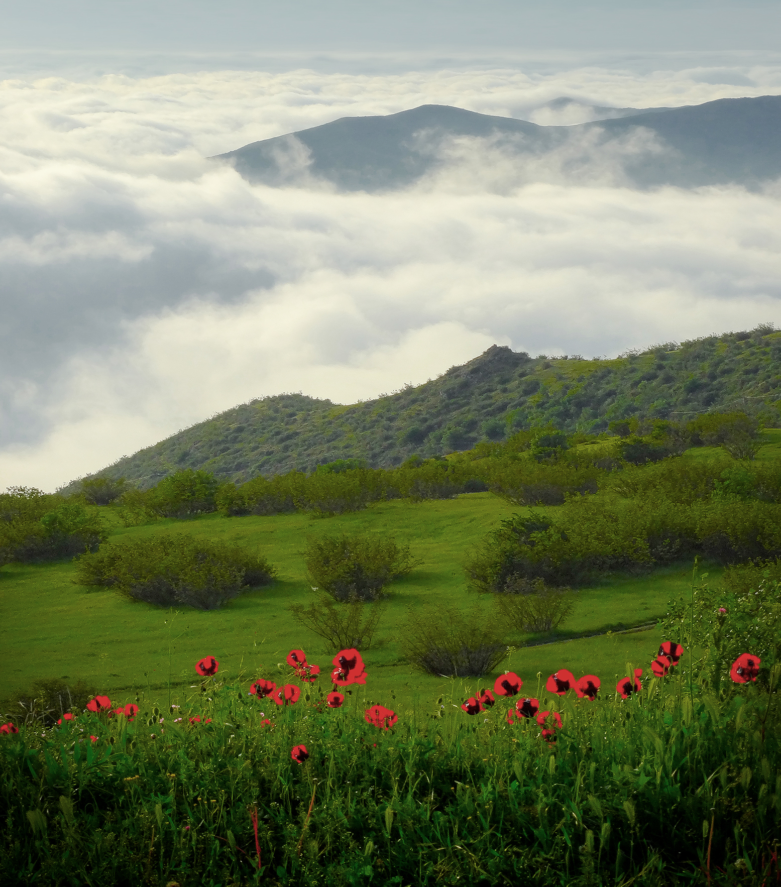 Nature of Shamkir rayon, Azerbaijan